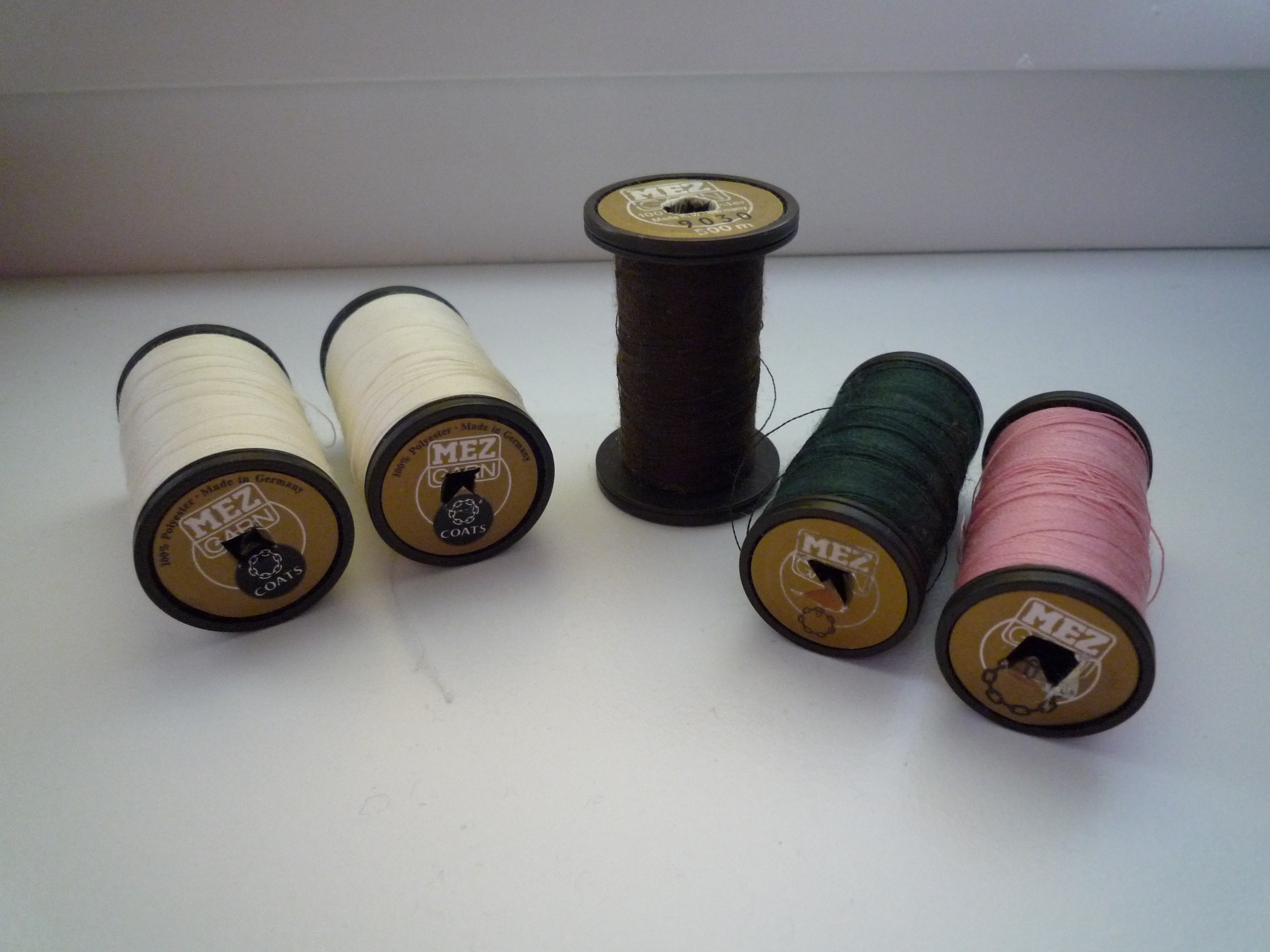 Yarn by the brand of MEZ, which originally comes from Freiburg im Breisgau